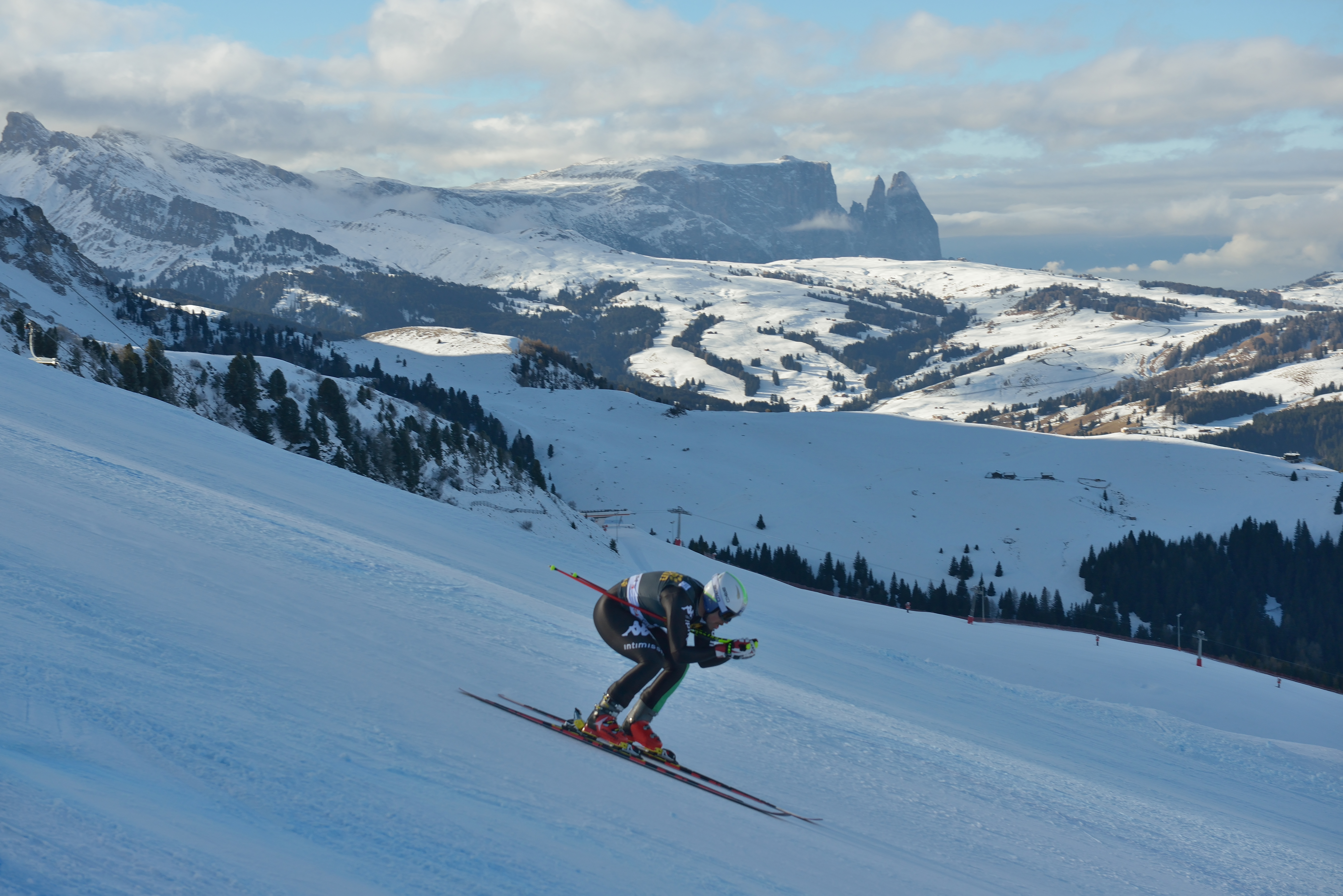 Peter Fill at the Fis Ski World Cup Val Gardena-Gröden - 46th Saslong Classic in Gröden